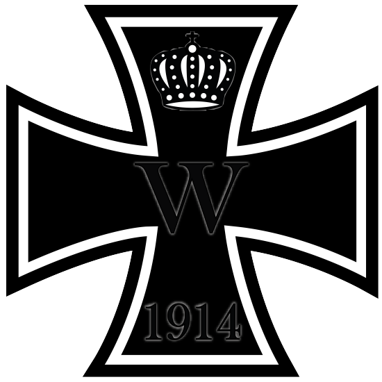 Iron Cross from 1914